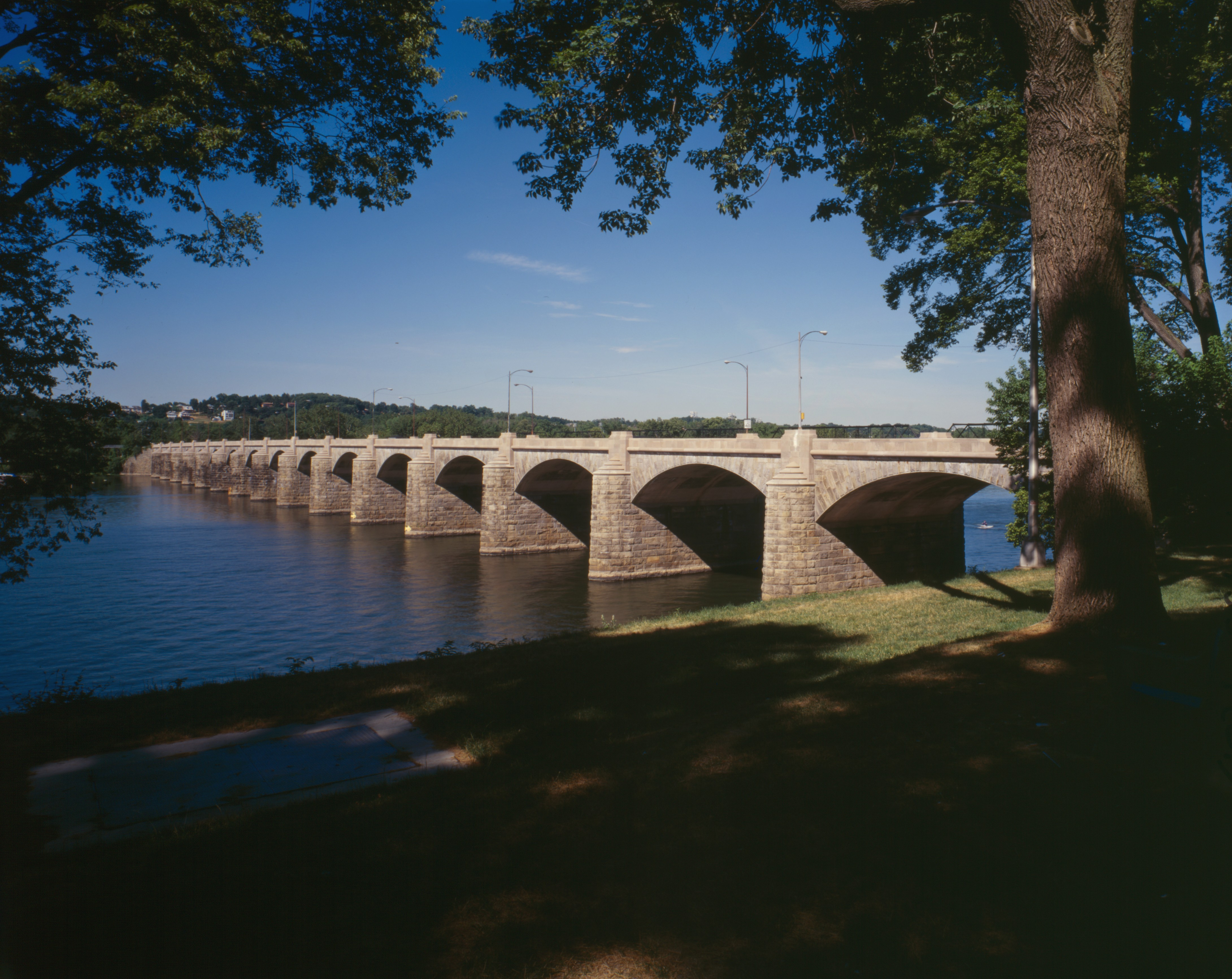 The Market Street Bridge in Harrisburg, Pennsylvania Original number was "HAER PA,22-HARBU,27-9", original caption was "3/4 view from southeast."